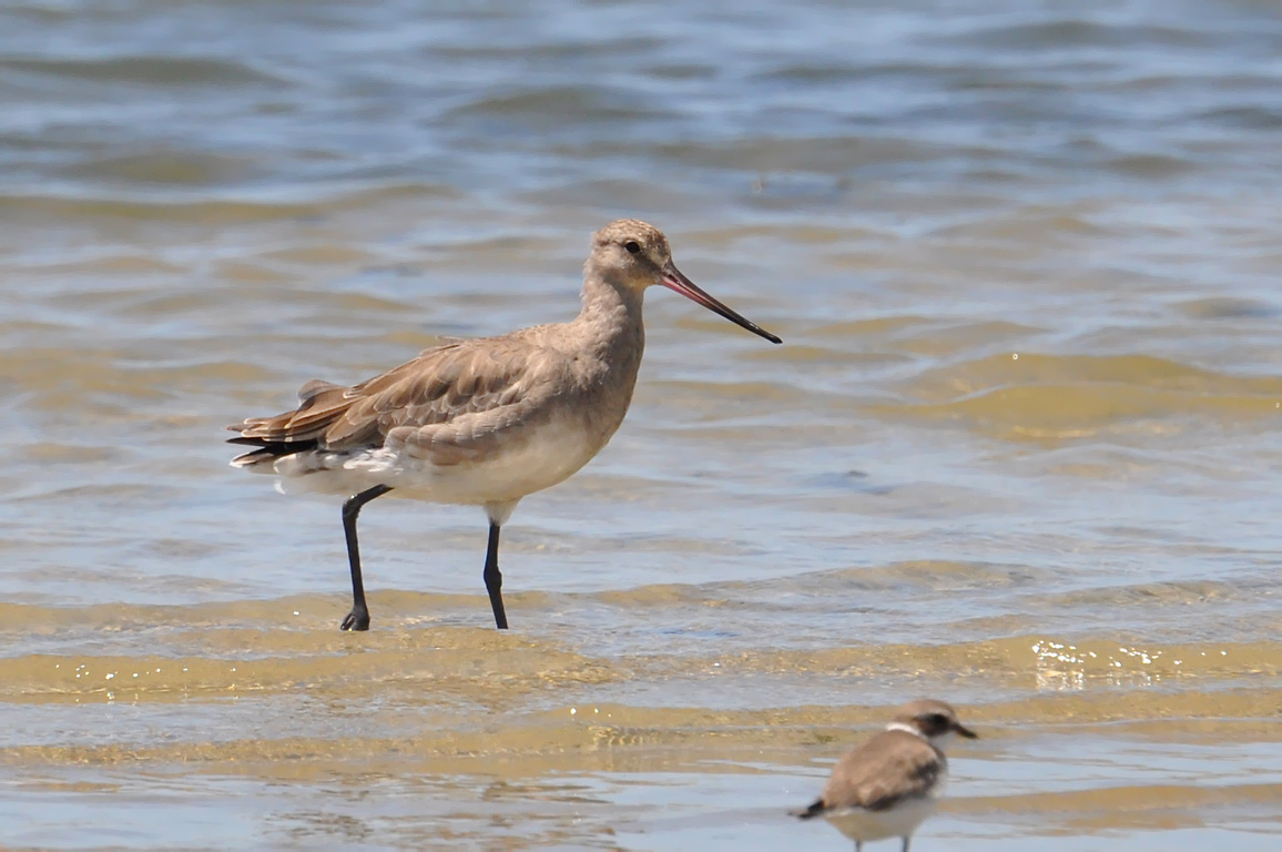 A Hudsonian Godwit in Rio Grande, Rio Gande do Sul, Brazil.